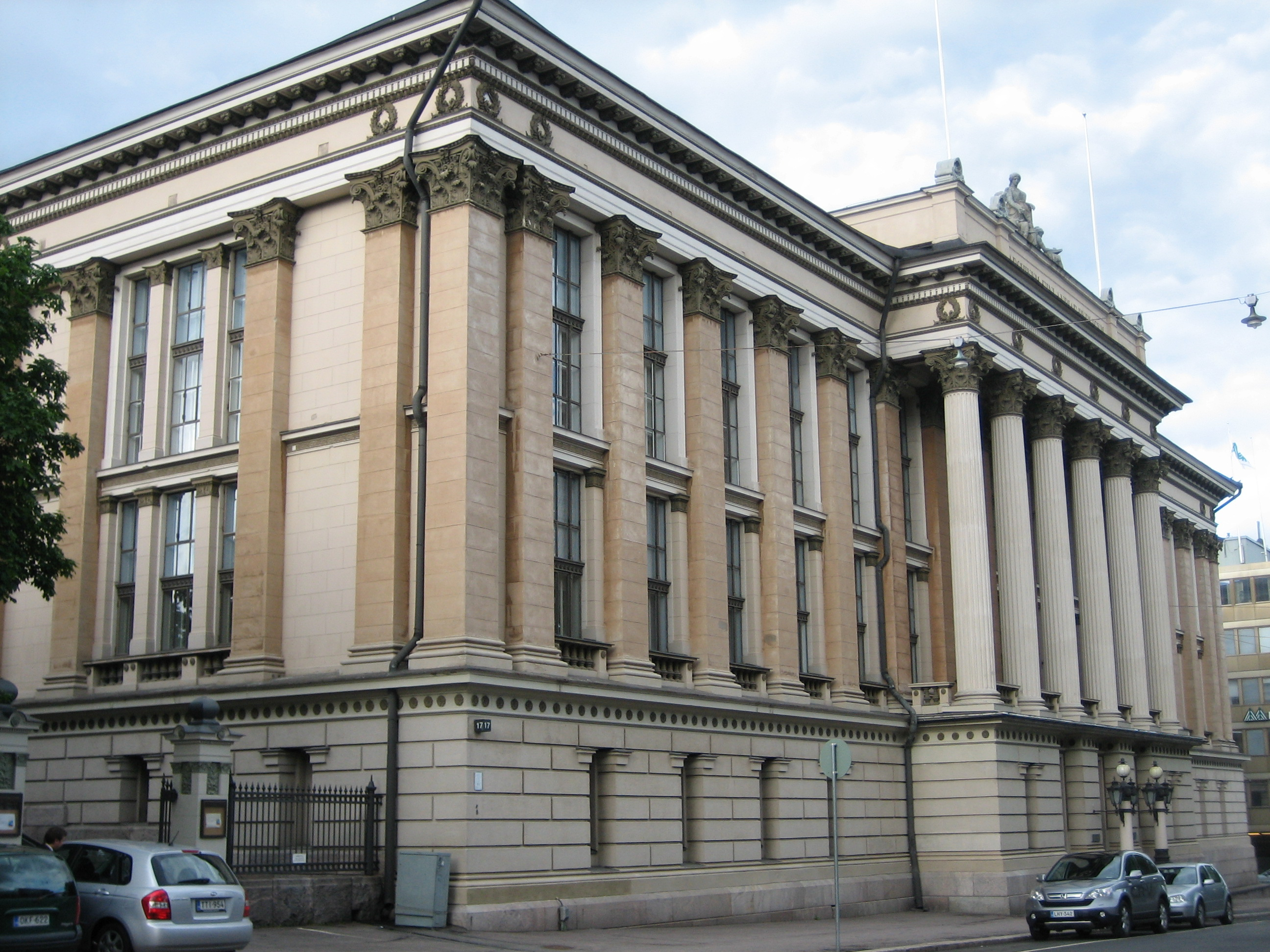 The National Archives Service in Finland, main building